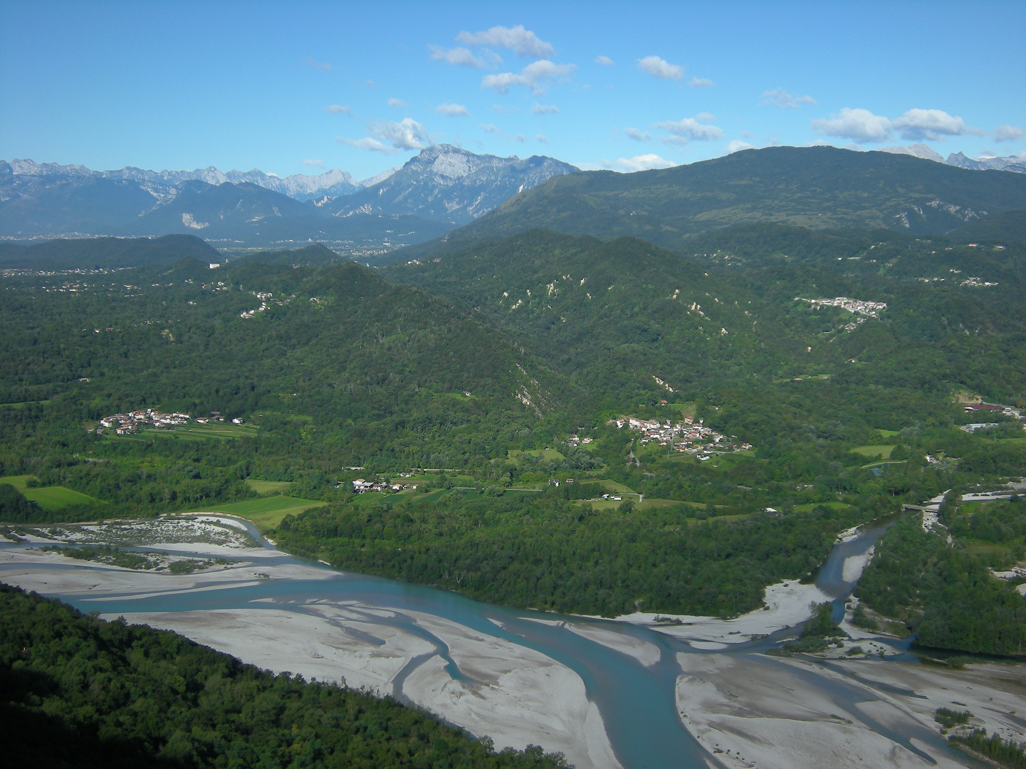 Campeis, Costabeorchia, Pontaiba, Colle, Manazzons in municipality of Pinzano